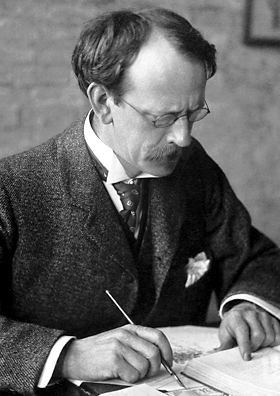 J.J. Thomson